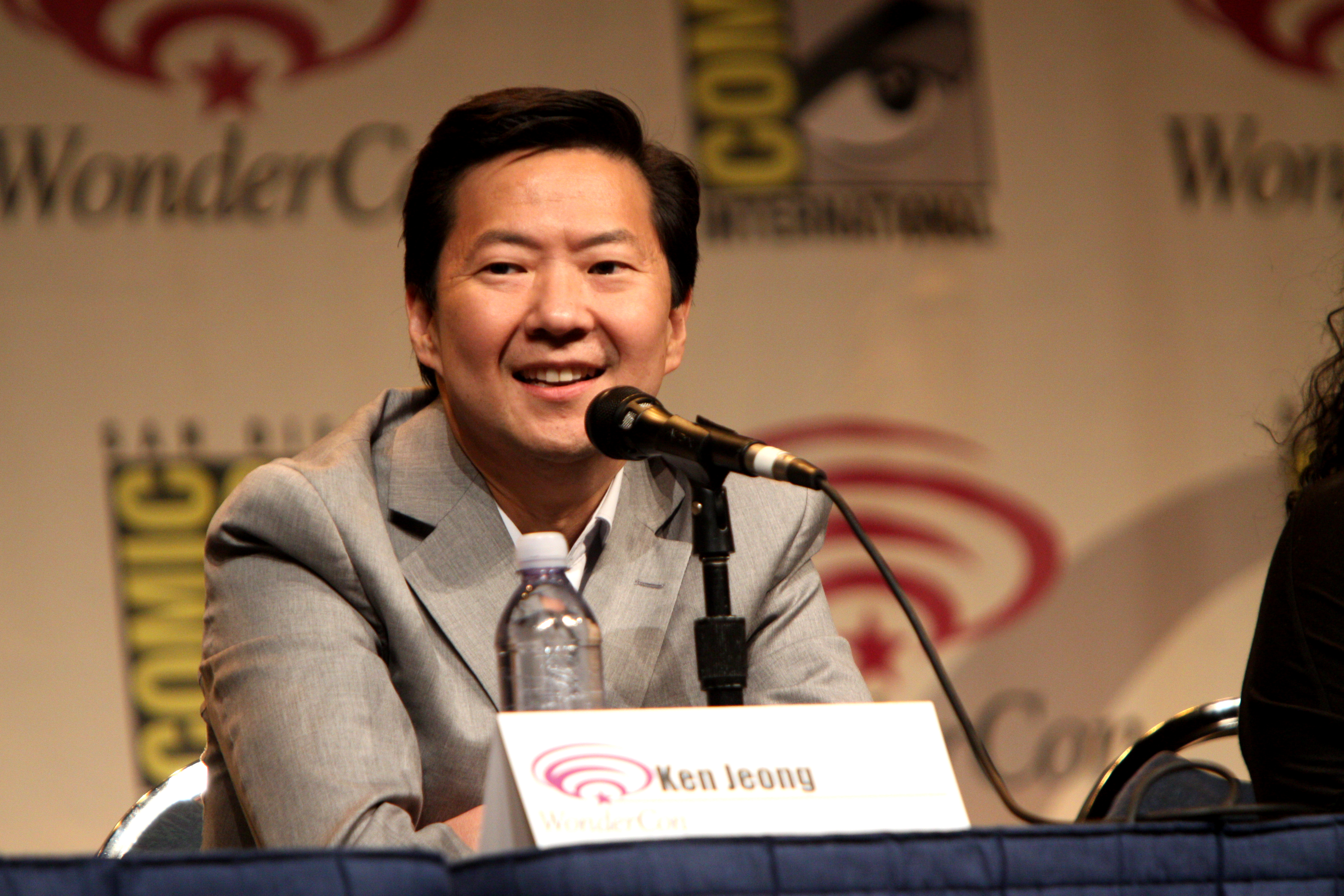 Ken Jeong speaking at the 2012 WonderCon in Anaheim, California.